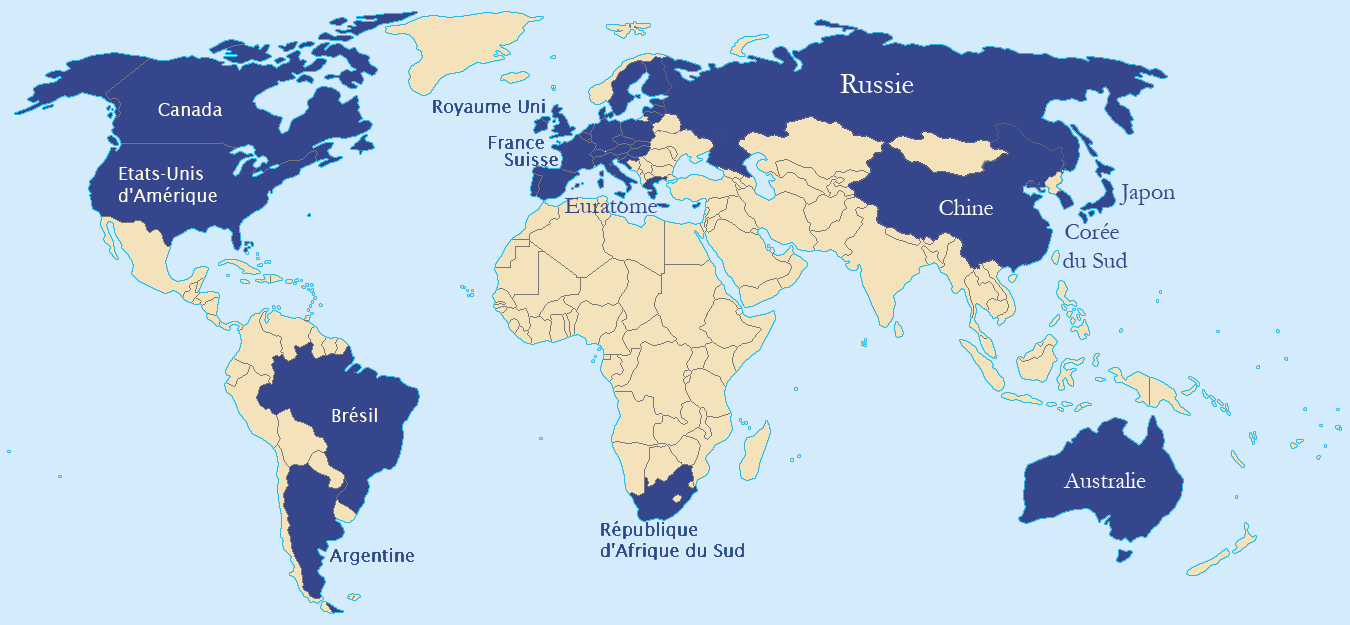 Pays participants au Forum International Generation IV